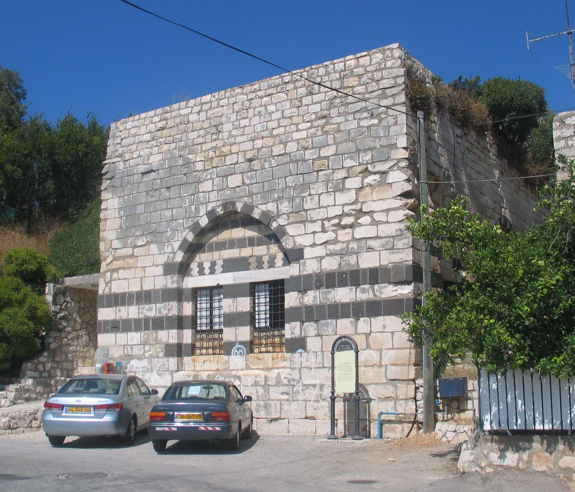 Mamluk mausoleum, Safed, Israel.